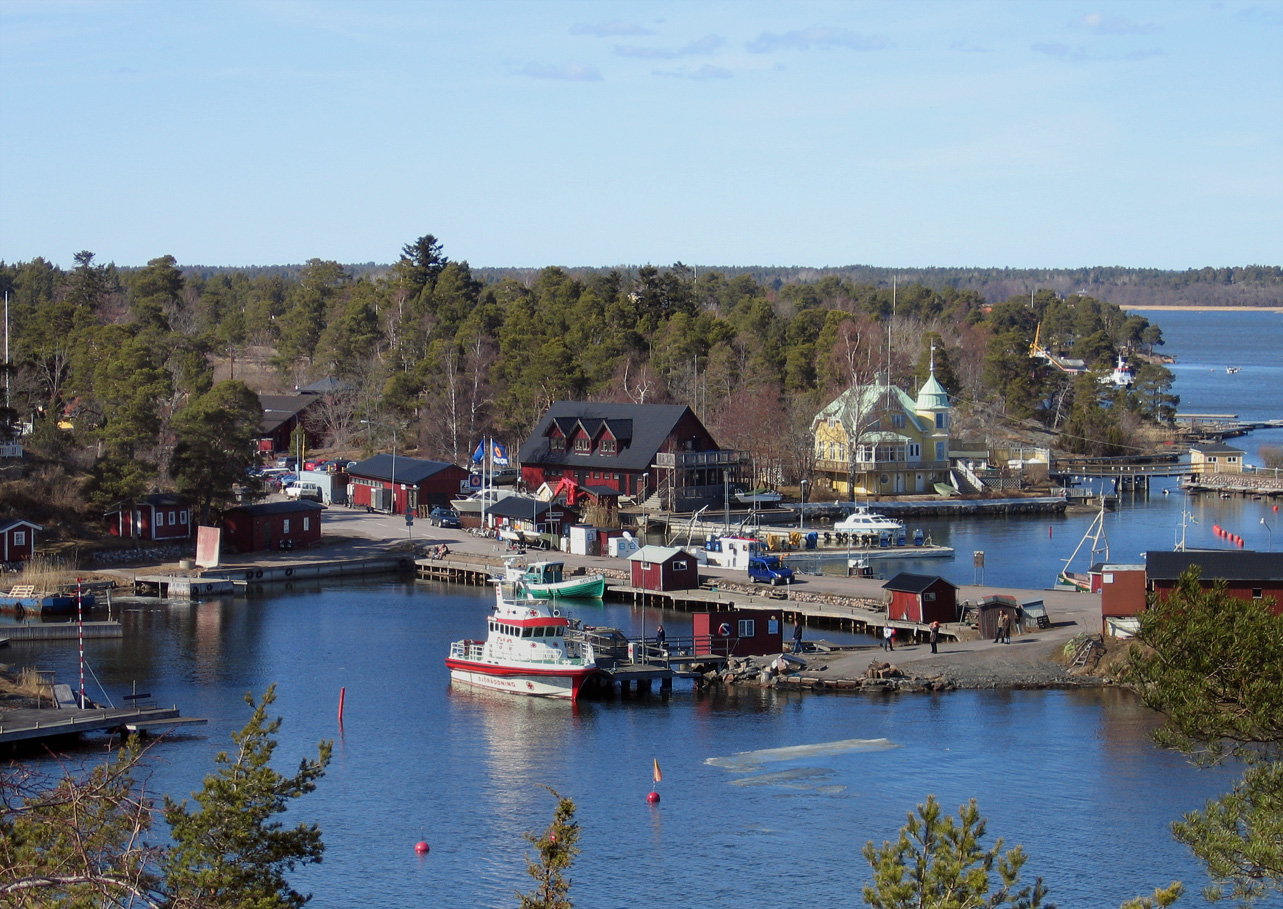 Arkösund, Sweden, April 2006. Taken by Gustavb.